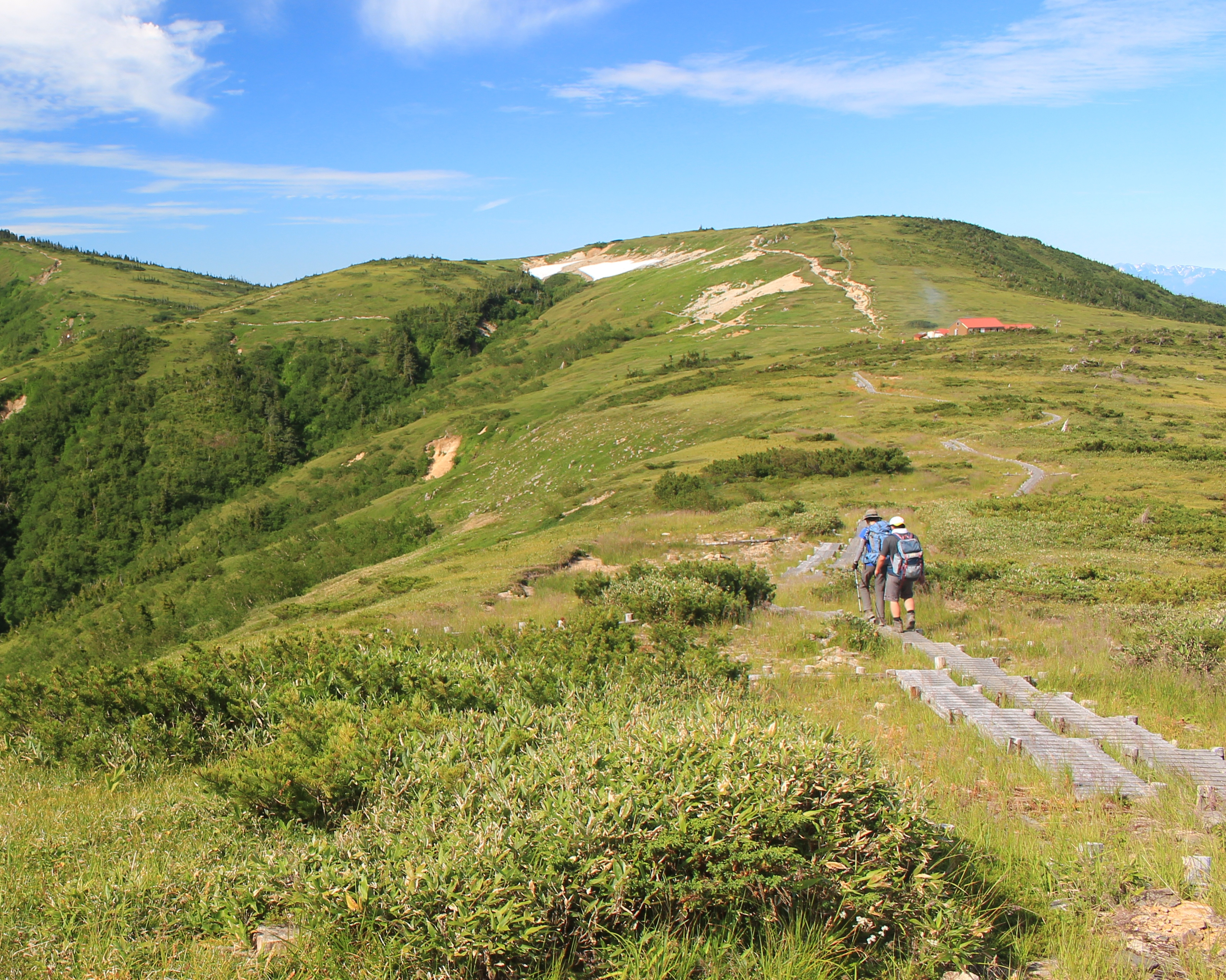 Mount Taro (Tarō -yama), a mountain in Tateyama Mountains of Hida Mountains, Toyama, Toyama prefecture, Japan.